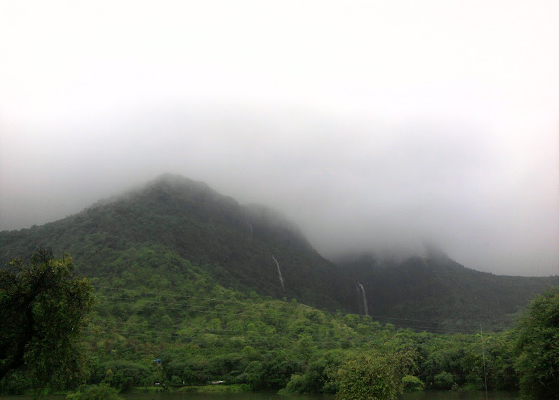 Pavagadh, a hill station located in Gujarat, India